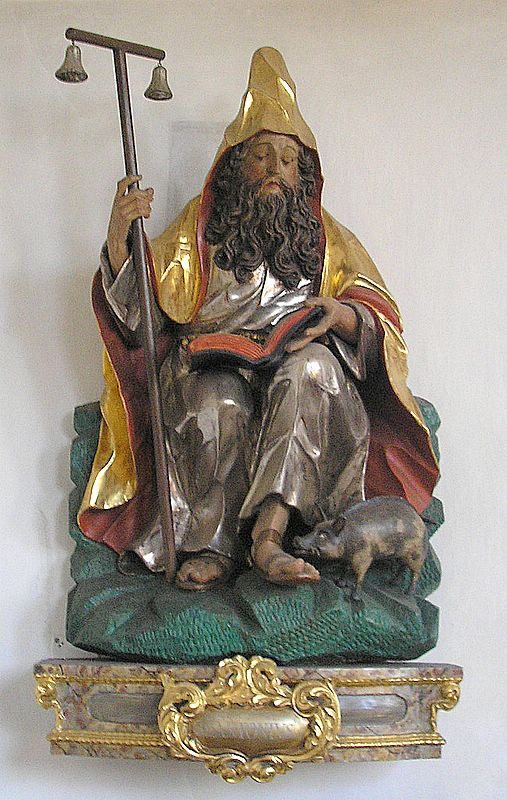 Parish church of the Holy Cross (Oberfinning, Municipality Finning, Landkreis Landsberg am Lech, Upper Bavaria, Germany). Saint Anthony the Great (Lorenz Luidl, ca. 1686)